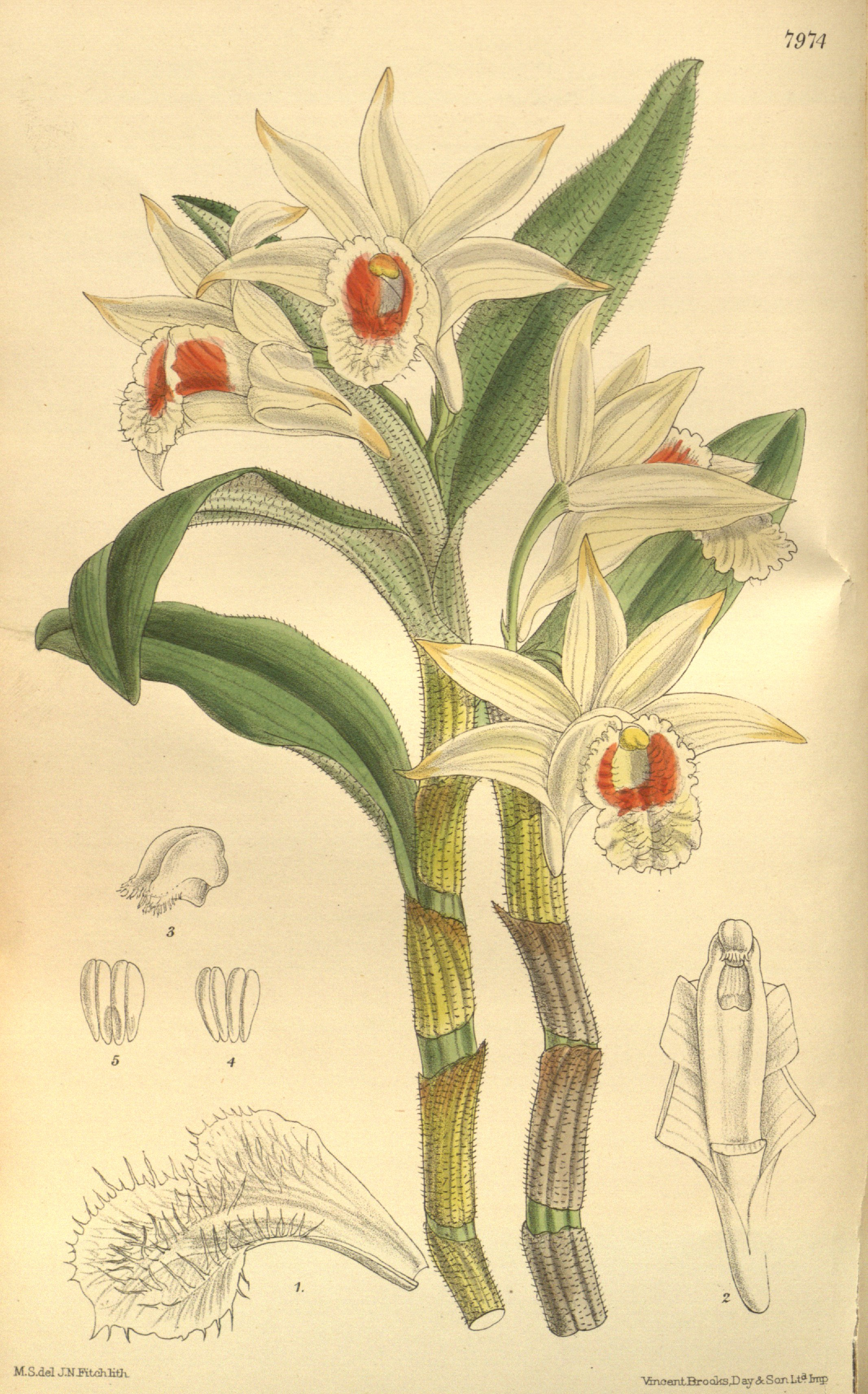 Illustration of Dendrobium williamsonii (spelled by Hemsley as Dendrobium williamsoni)